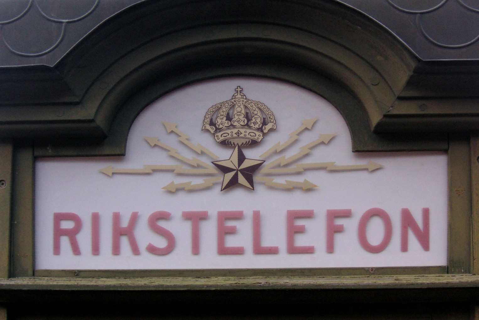 Rikstelefon was a brand used by the Swedish national telecom (Kongl. Telegrafverket). From a neo-classical telephone booth of the 1980s/1990s.